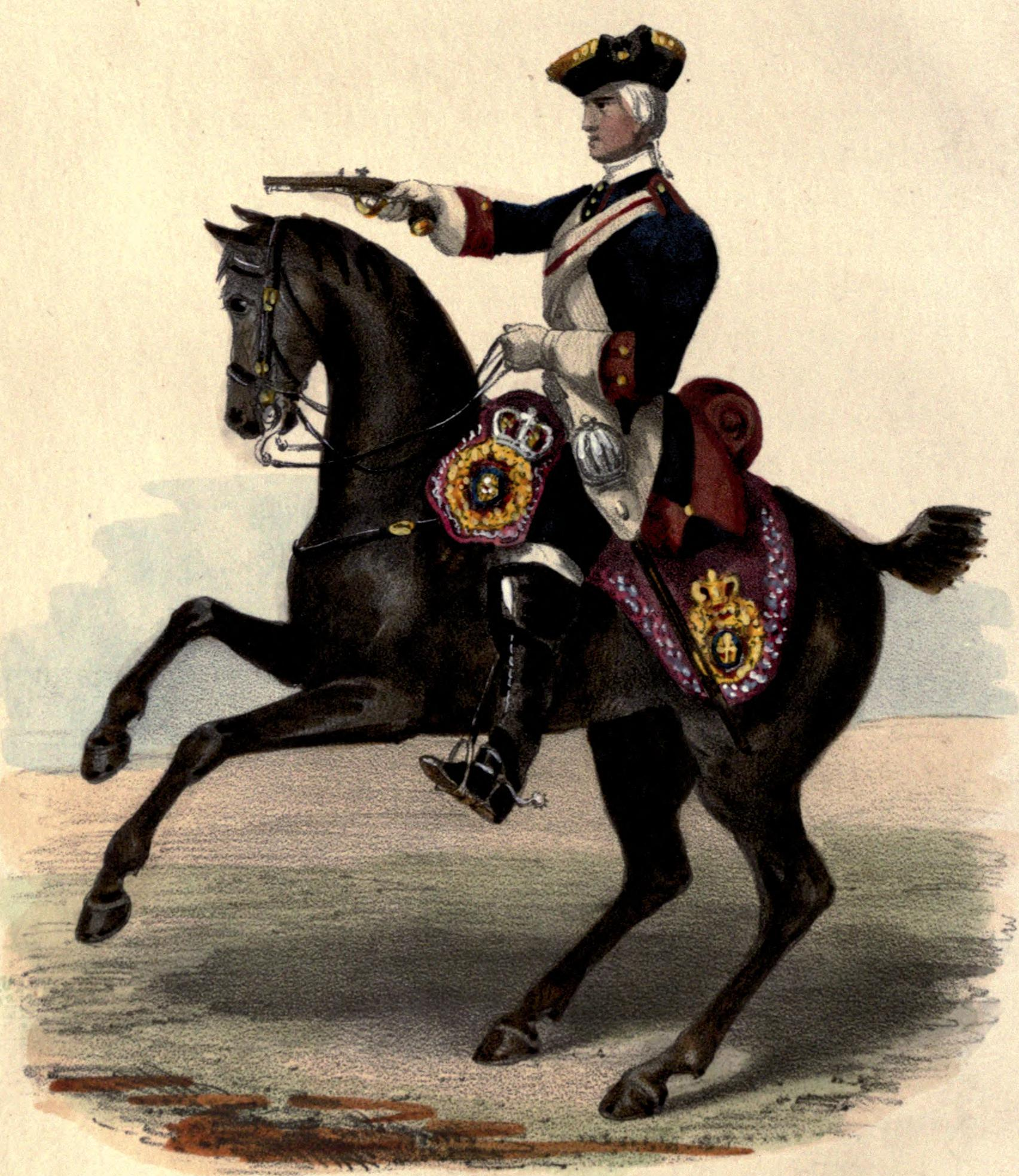 Royal Horse Guards uniform in 1742.